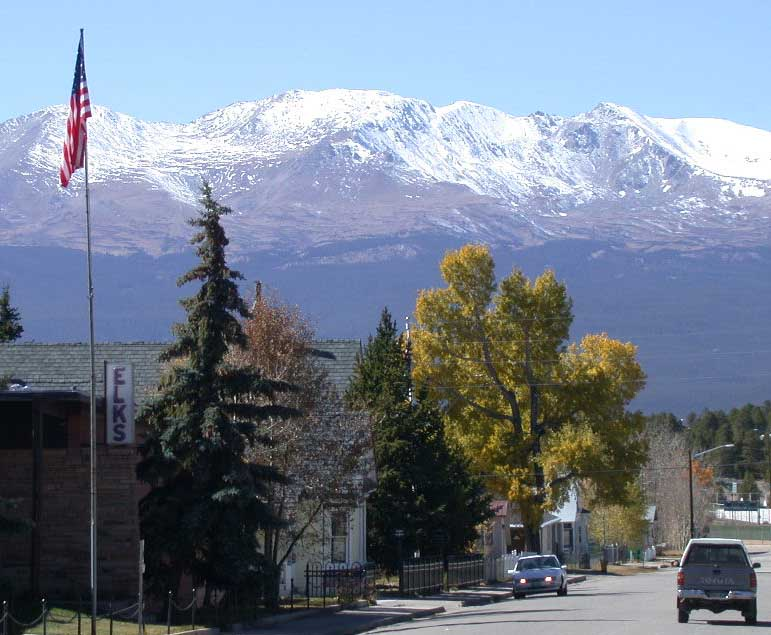 View of Mount Massive looking west from Harrison Street in downtown Leadville, Colorado (taken Oct. 9, 2004) © 2004 Matthew Trump